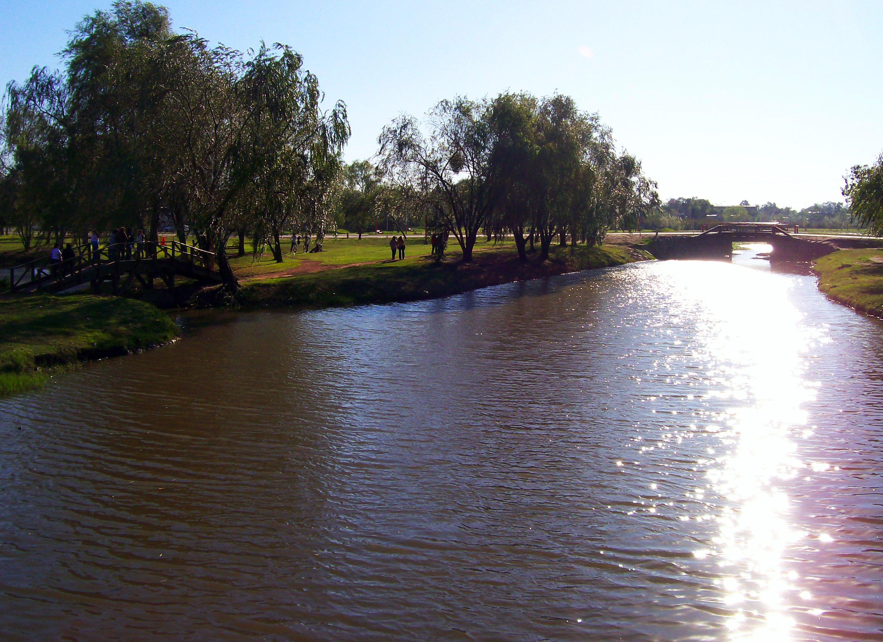 Argüello lake in Resistencia, Chaco, Argentina seen from bridge in Ayacucho St. In the up-right side you can see the bridge of Avenida Paraguay; in the left side there is a pederestrian wood bridge.